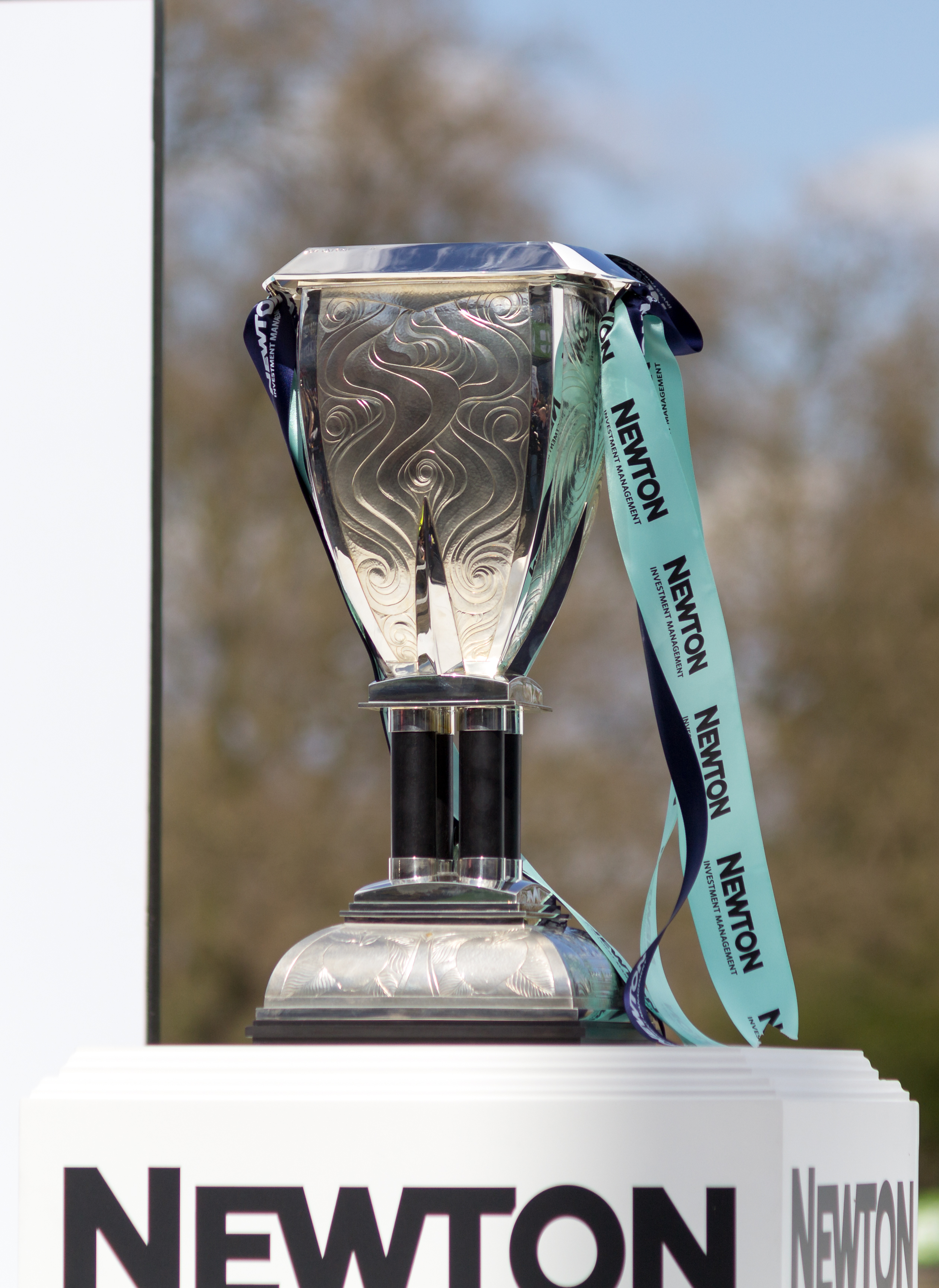 The trophy for The Newton Women’s Boat Race, shown here before the 2015 race.